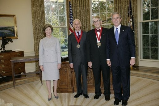 President George W. Bush and Laura Bush stand with 2005 National Humanities Medal recipients Lewis Lehrman and Richard Gilder, Thursday, Nov. 10, 2005 in the Oval Office at the White House. White House photo by Eric Draper